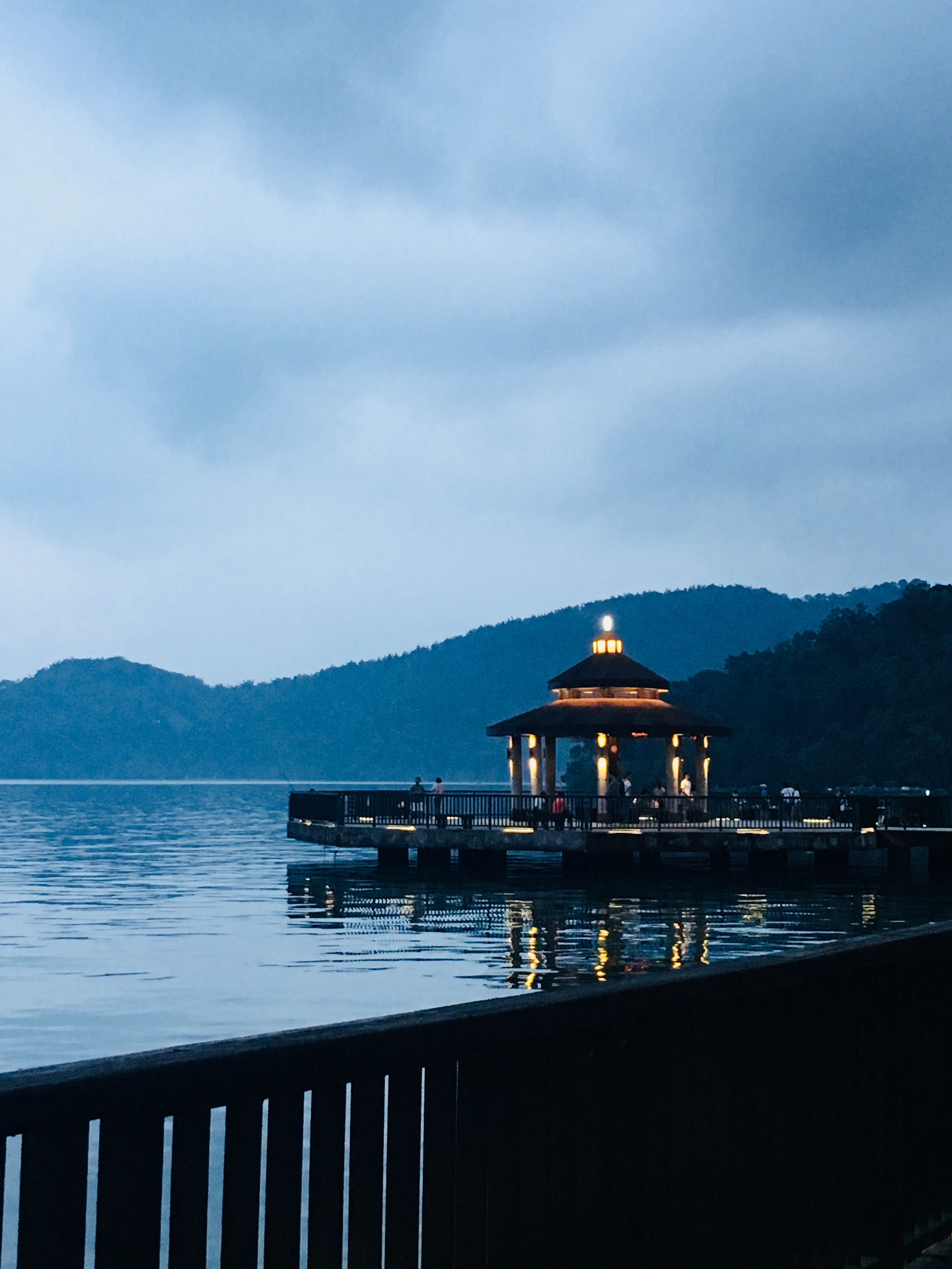 Photo of pier at Sun Moon Lake in Taiwan.